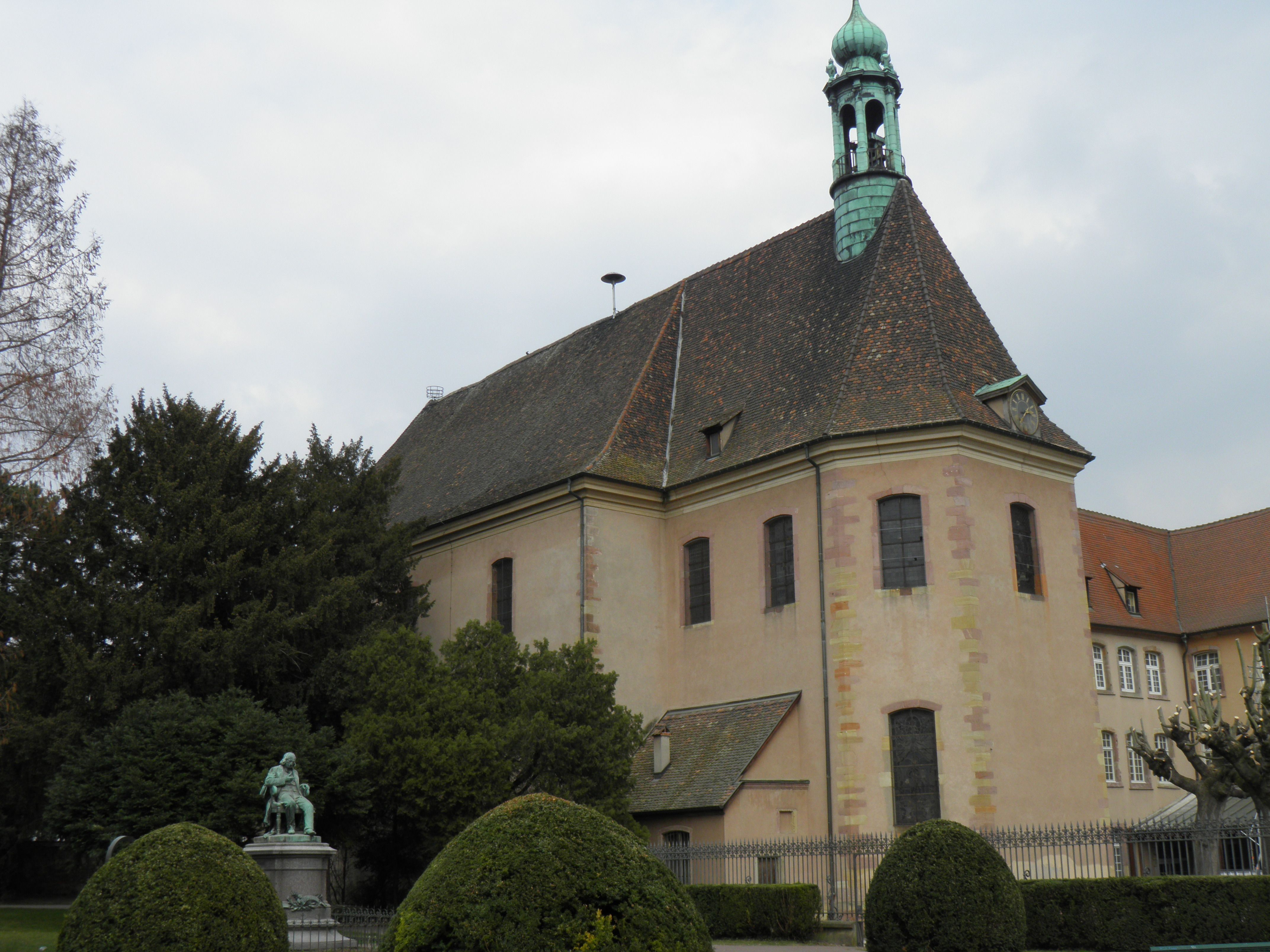 Hirn square, Hirn monument and St. Peter's chapel in Colmar (Haut-Rhin, France).